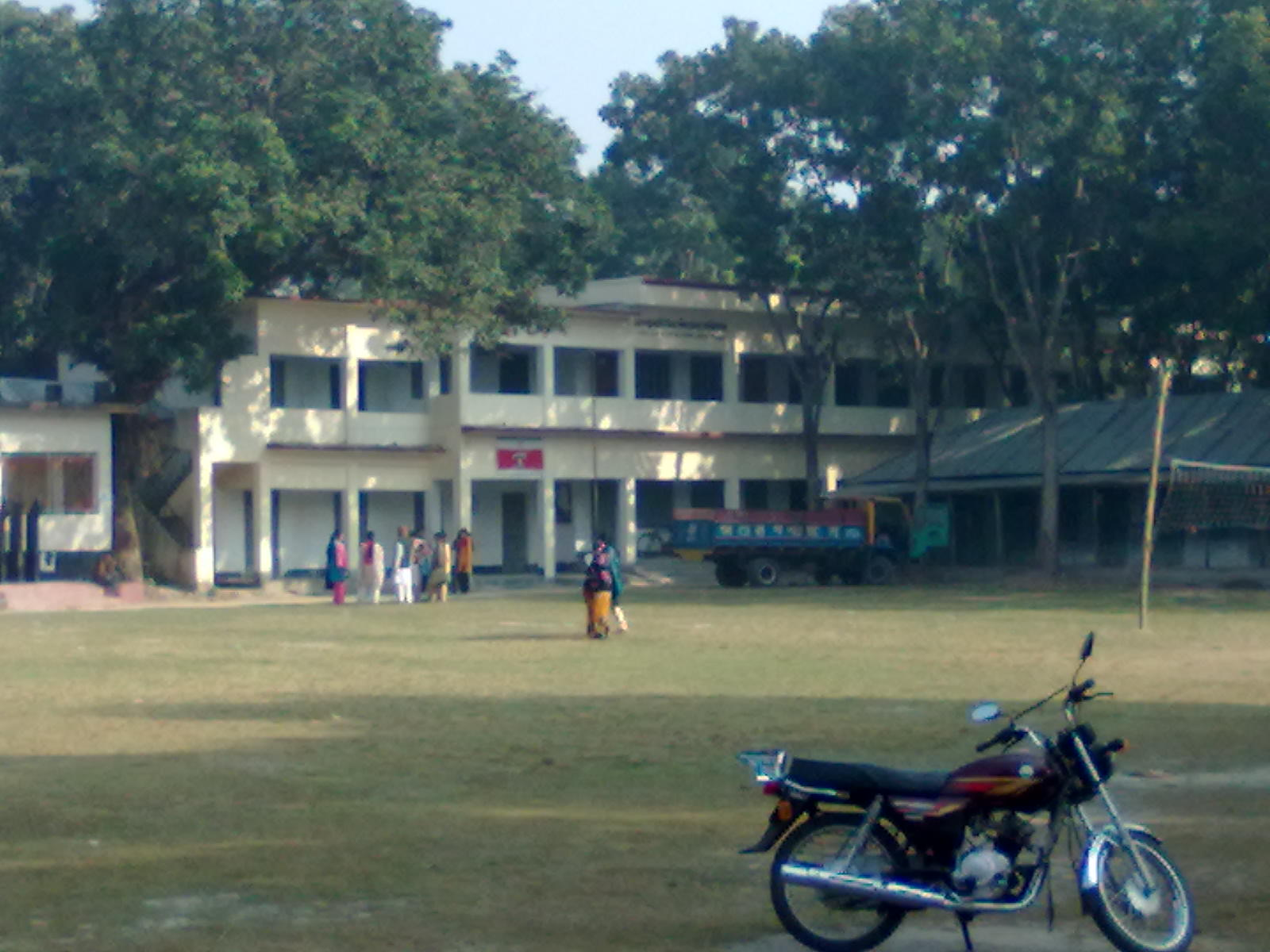 This is Domrakandi High School